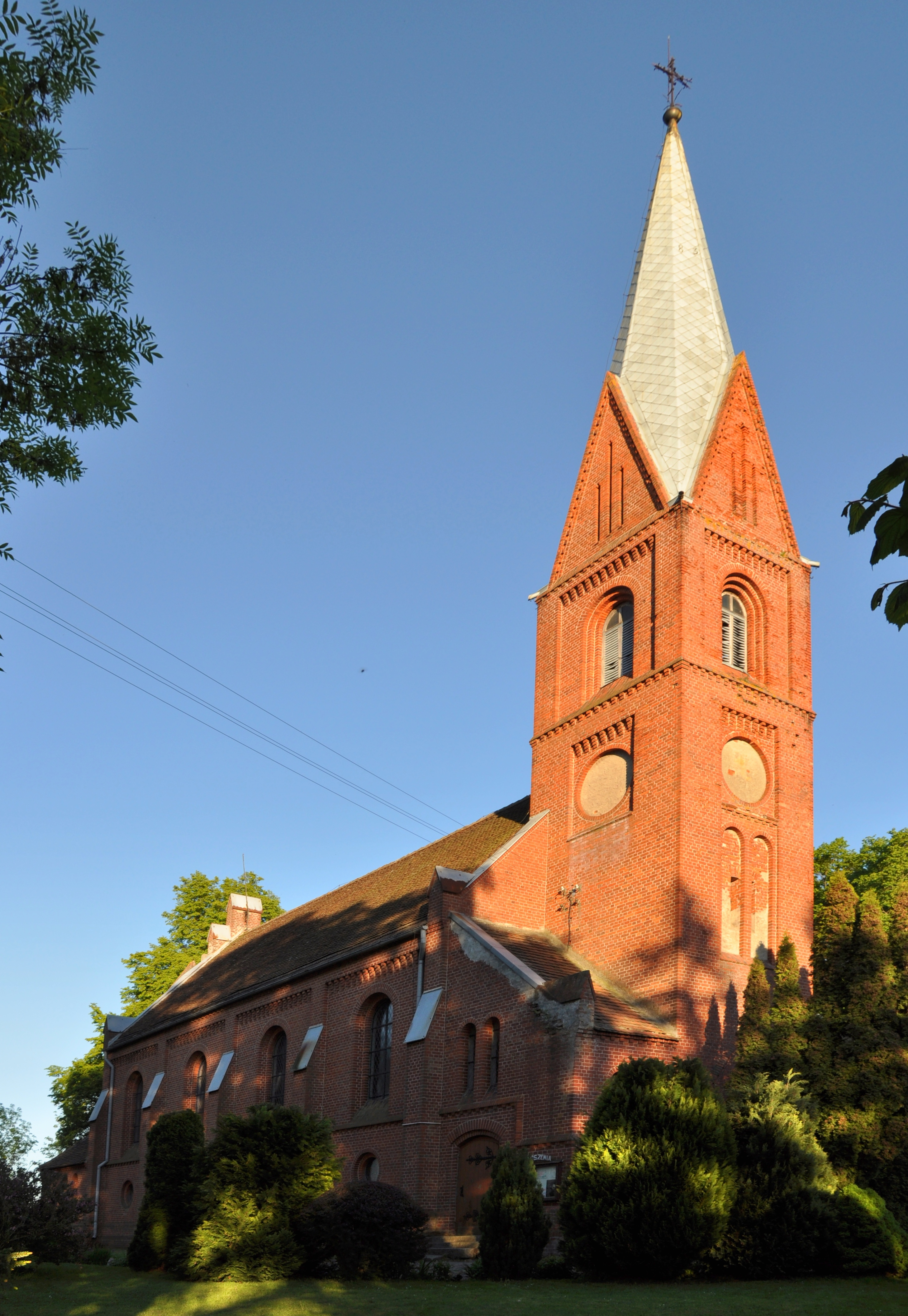 St. Mary's Church of the Immaculate Conception Roman Catholic Church in Konarzewo (gmina Karnice), Poland